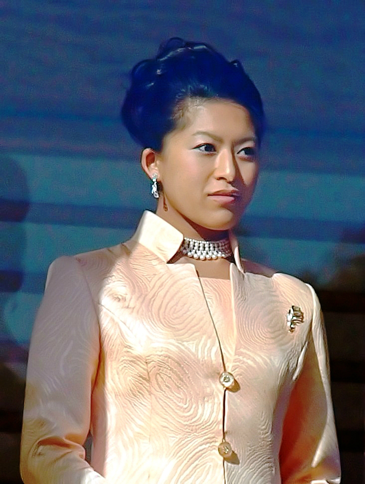 Princess Tsuguko appeared the "Visit of the General Public to the Palace for the New Year Greeting" at the Tokyo Imperial Palace in Chiyoda Ward, Tōkyō Metropolis on January 2, 2011.